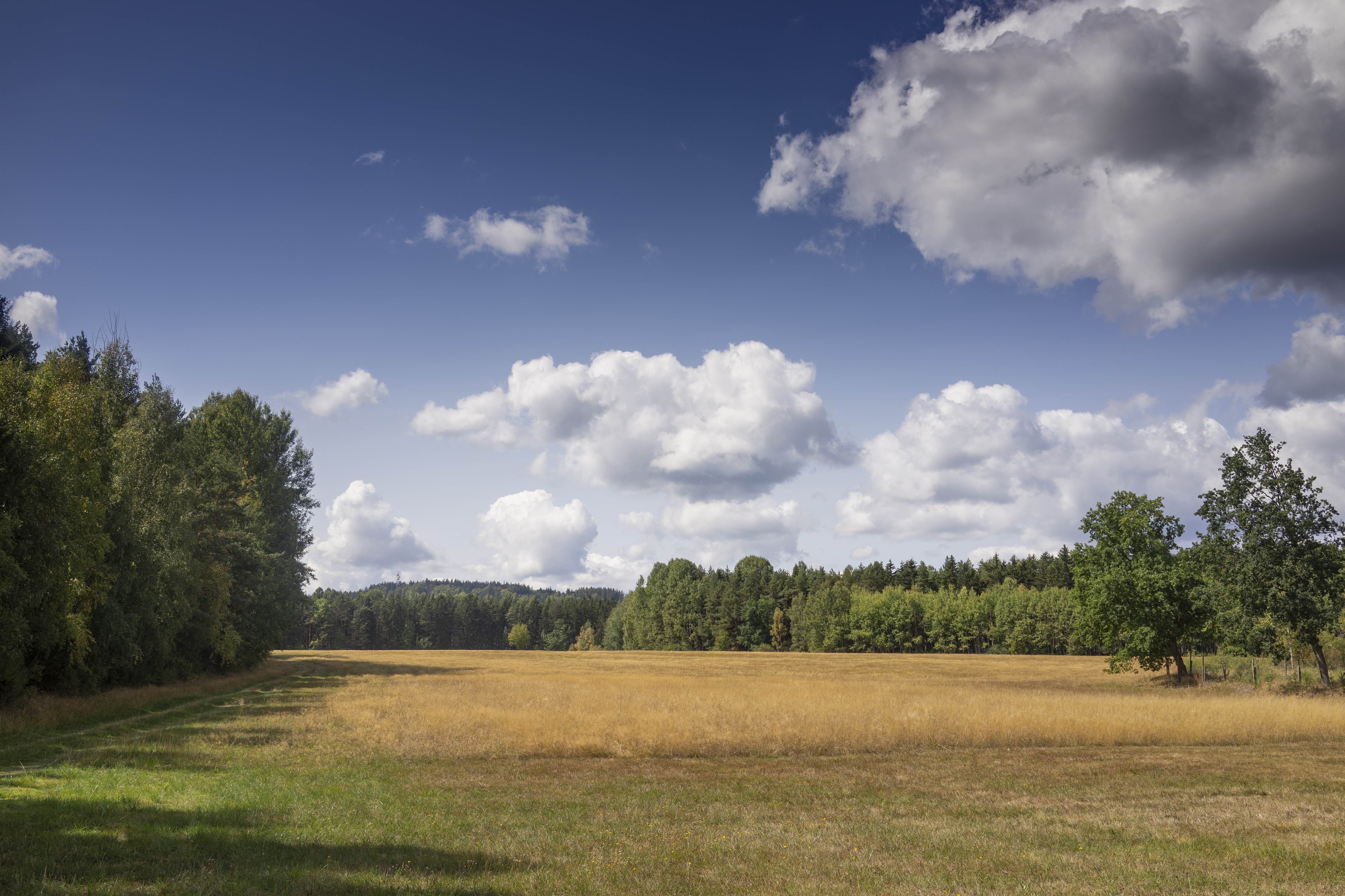 Natural monument Rozmital pod Tremsinem, Czech Republic